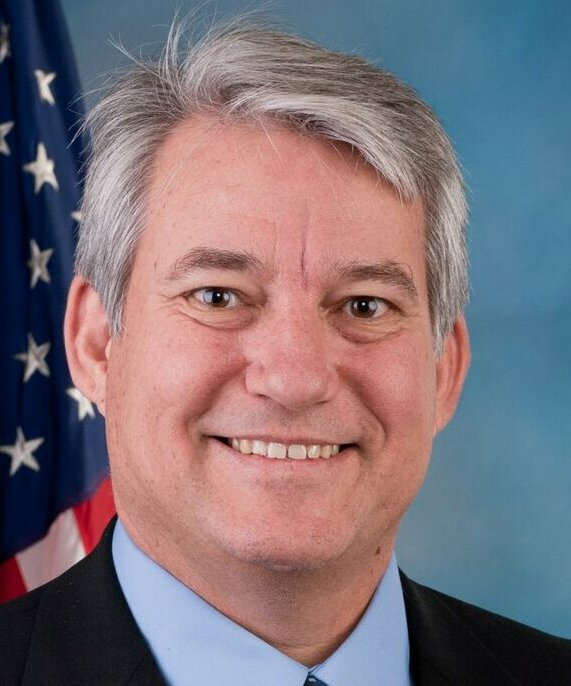 Official portrait of US Rep. Dennis A. Ross